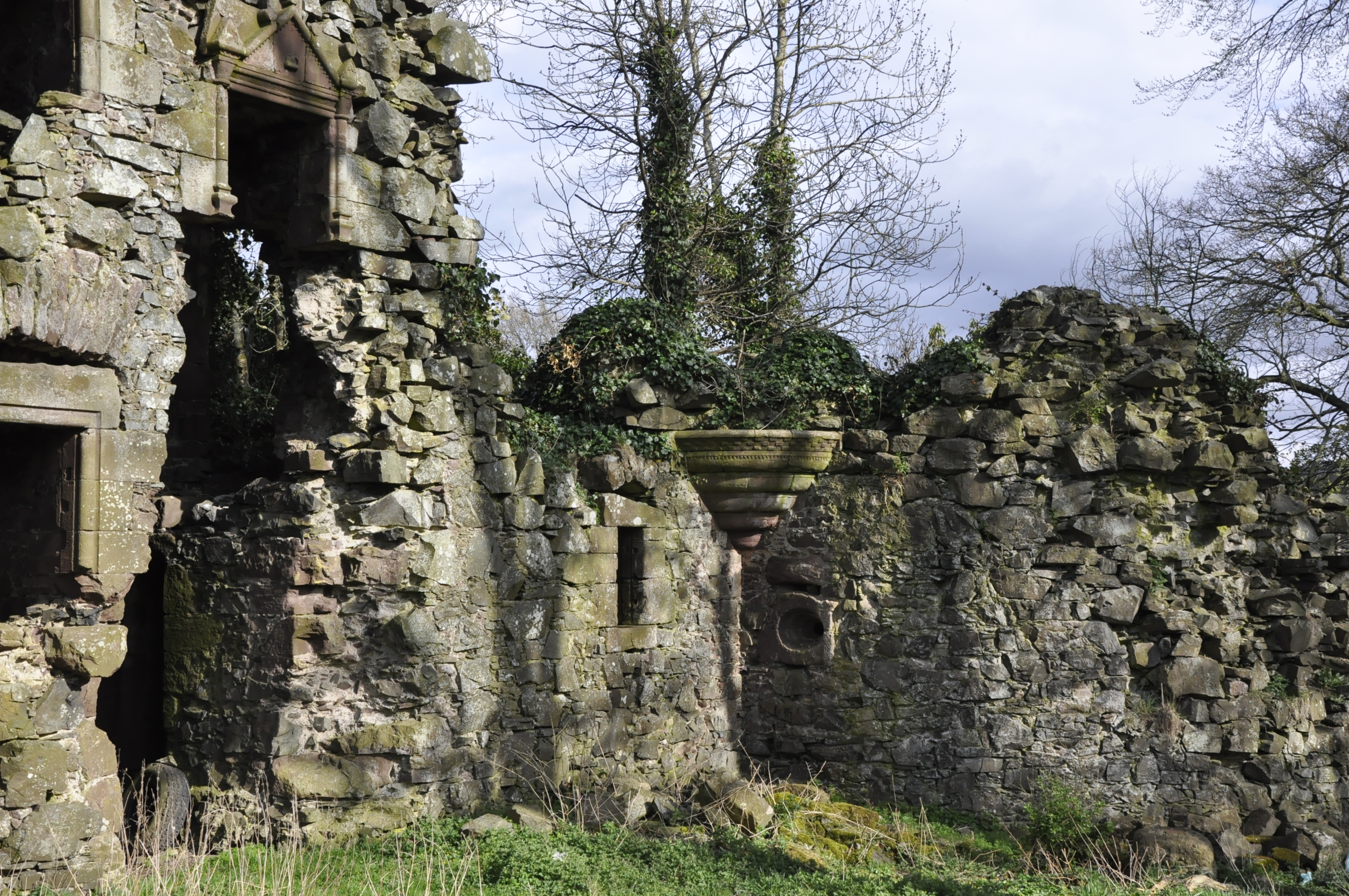 Drochil Castle